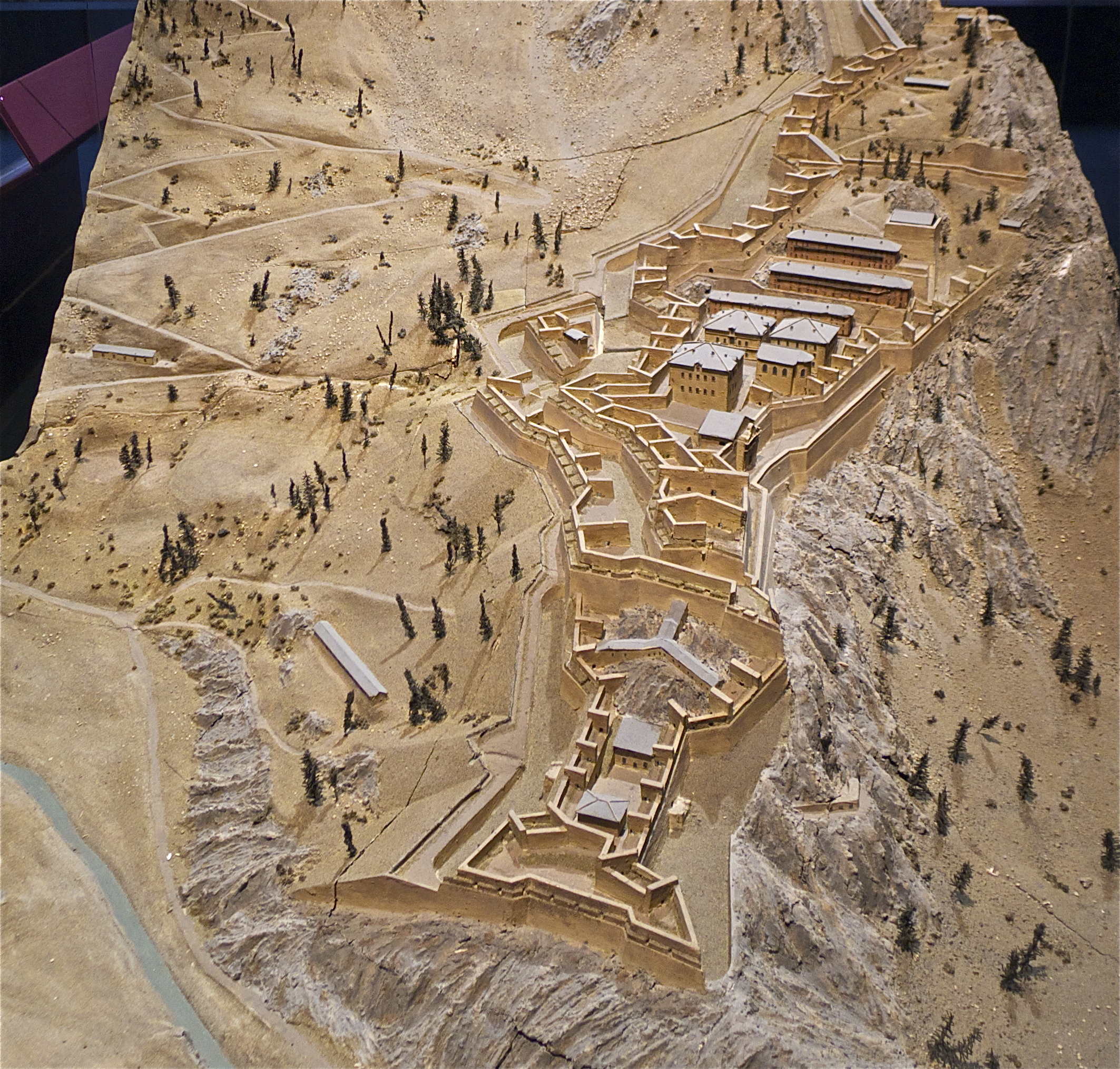 Detail from the plan-relief of Fenestrelle built in 1757 under the direction of Marciot. Scale 1/600